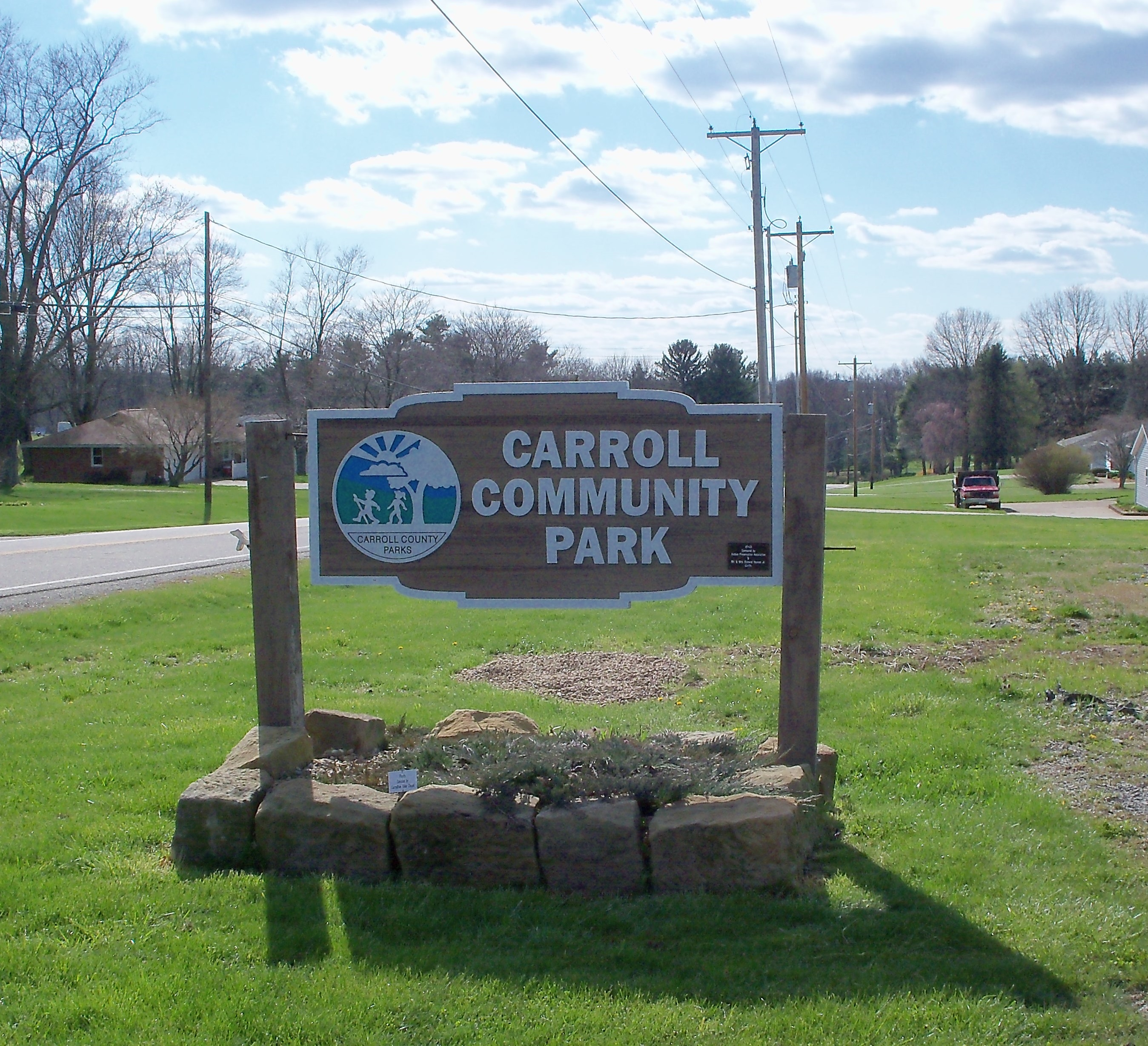 Carroll County, Ohio Community Park, with ball fields, pavilion, and playground.